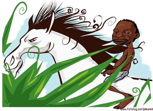 legend of the "negrinho do pastoreio" from Brazil